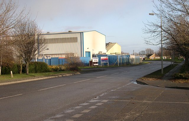 Industrial Estate, Bourne. Part of a large industrial and commercial estate in the southeastern quarter of Bourne.